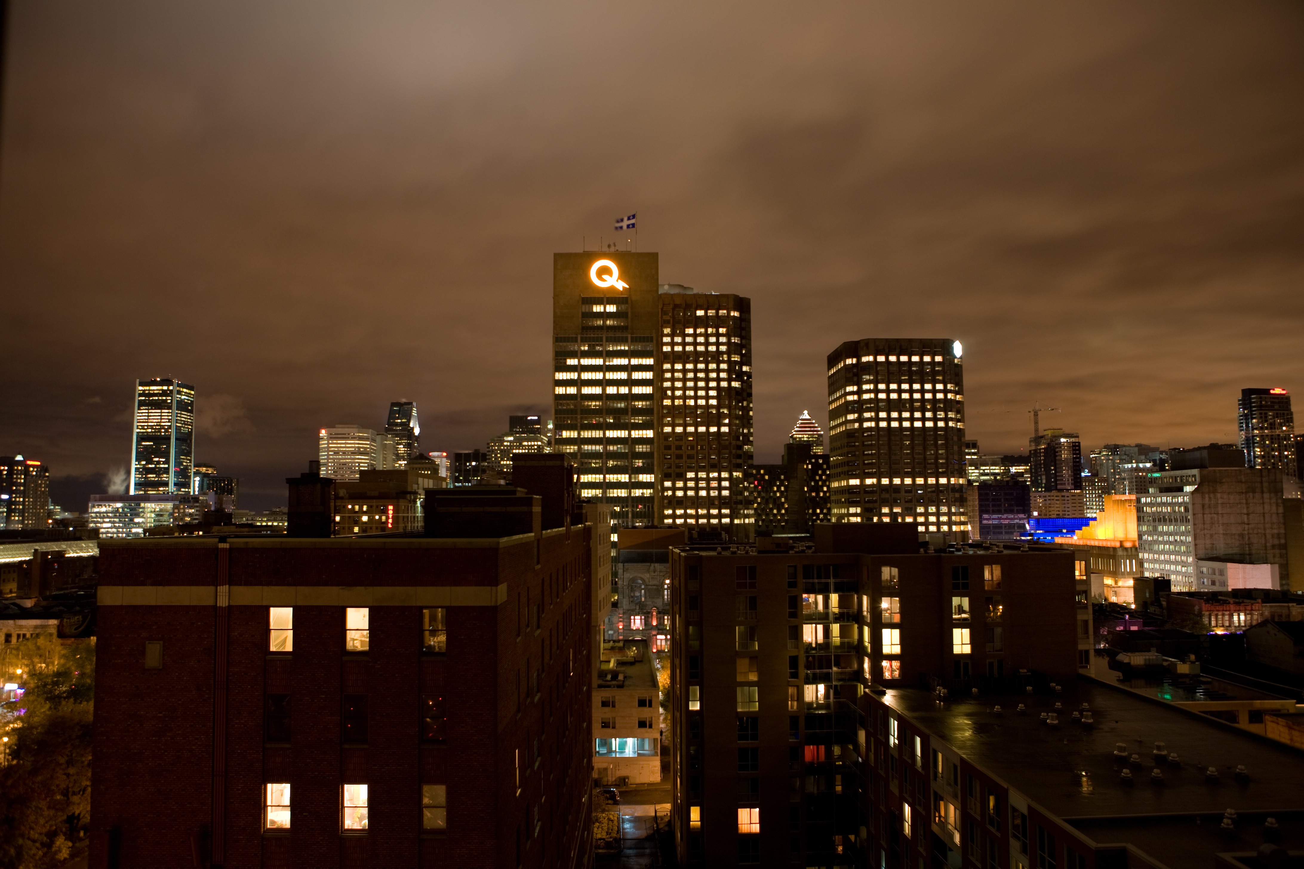 The Hydro-Québec building is a fixture of downtown Montreal's skyline